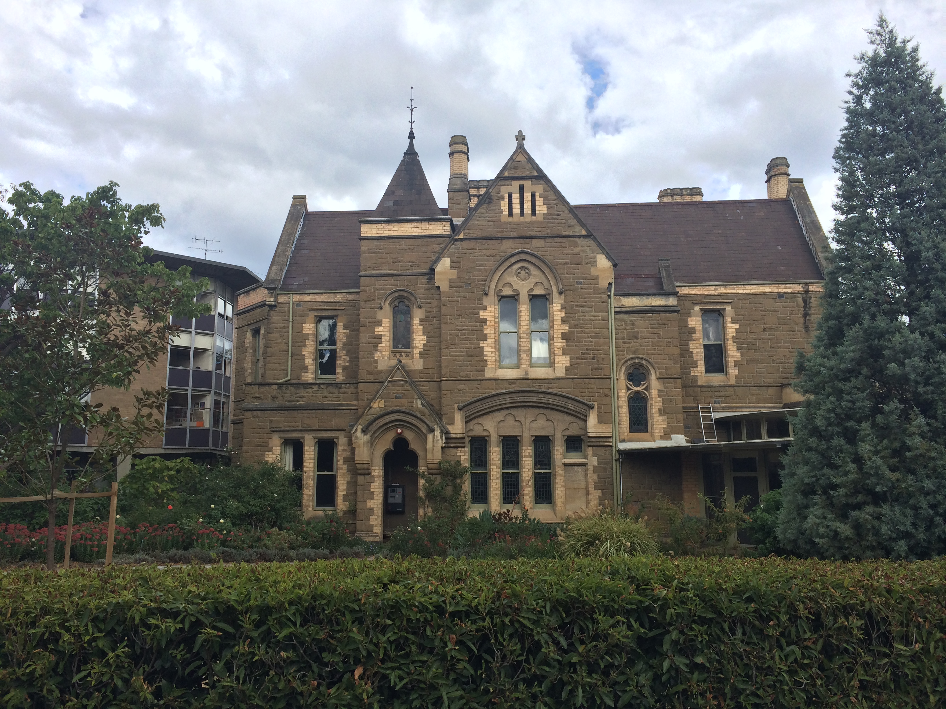 Front of Allen House at Ormond College